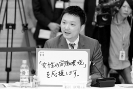 Yasuharu Ishikawa, President of Cross Inc., talked at a meeting at the Prime Minister's Official Residence in Chiyoda Ward, Tōkyō Metropolis on March, 2014.